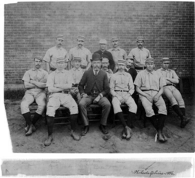 Philadelphia Baseball Club, 1886, McGuire, Wood, Mulvey, Bastian, Cusick, Farrar, Daily, Fogarty, H. Wright, Andrews, Ferguson, Capt. Irwin, Casey, Clements